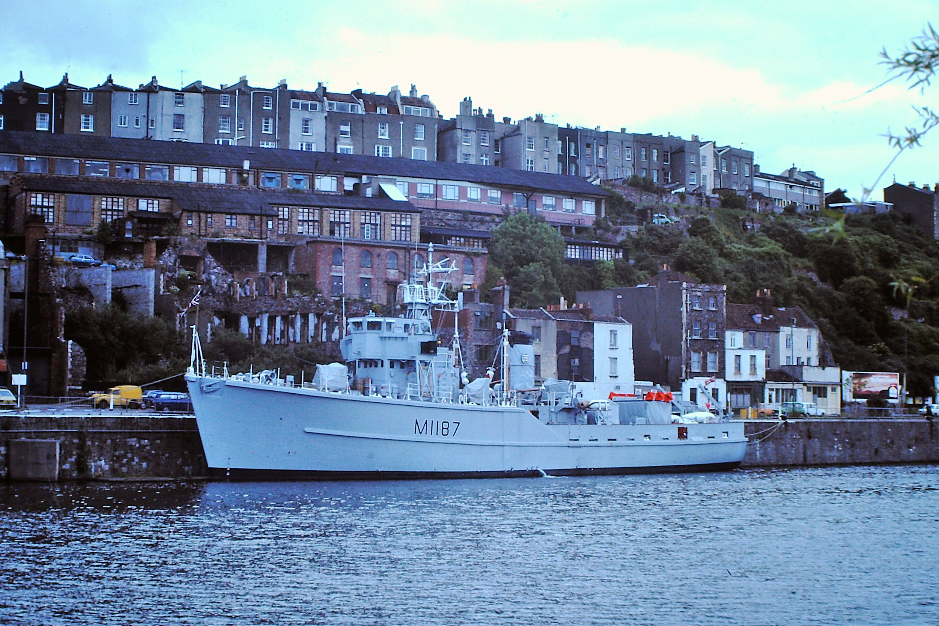 "Ton" Class Coastal Minesweeper "HMS Upton", 360 tons, launched and commissioned 1956. At Bristol Harbour, 1985. It has been refitted with an enclosed bridge and a lattice mast and re-engined from a Mirlees diesel to a Napier. Scanned slide taken with a Canon AE-1 Program.